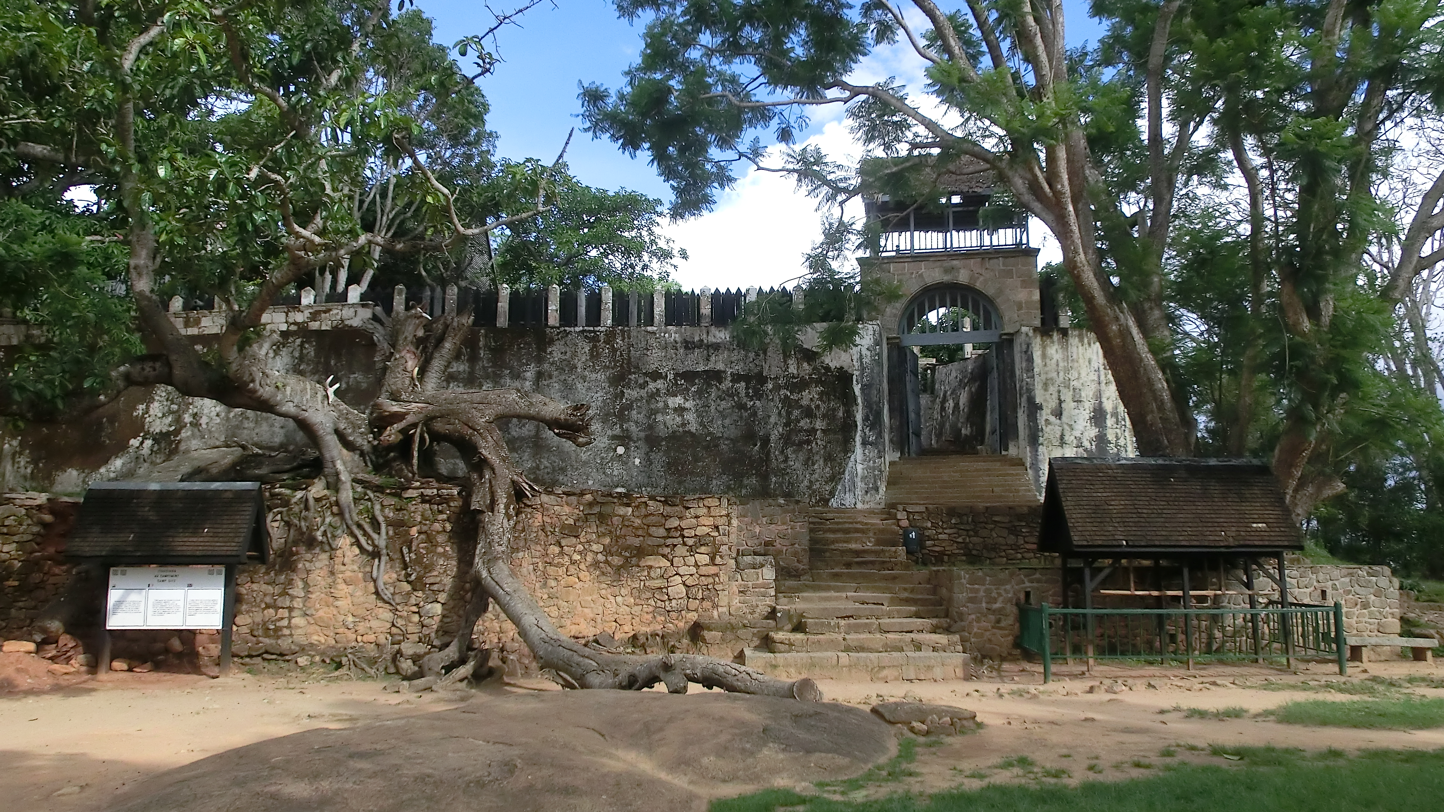 Bevato compound at Royal Hill of Ambohimanga, showing damage to sacred fig trees caused by Cyclone Giovanna in 2012